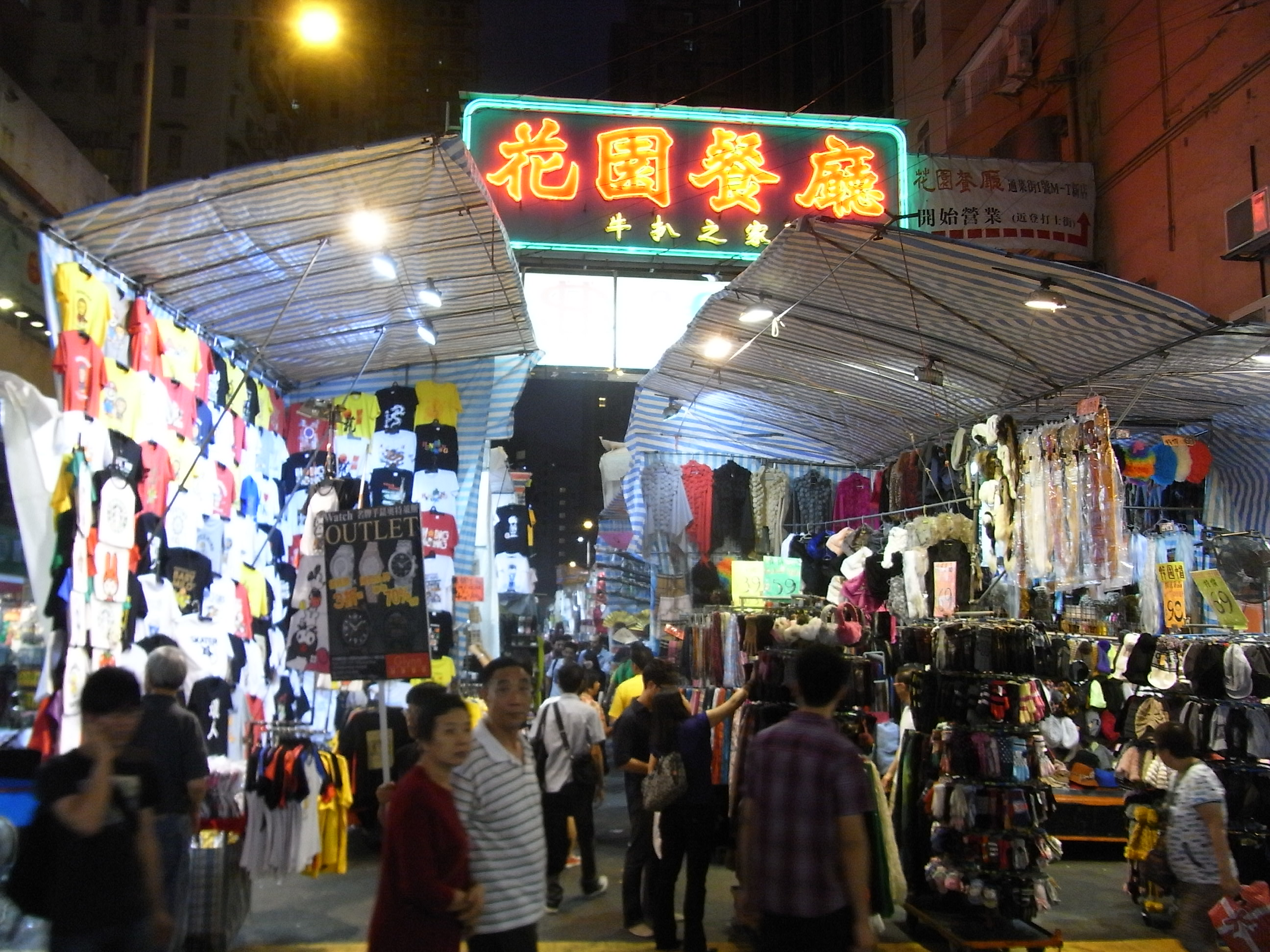 View of Tung Choi Street from its intersection with Soy Street, in Mong Kok, Kowloon, Hong Kong